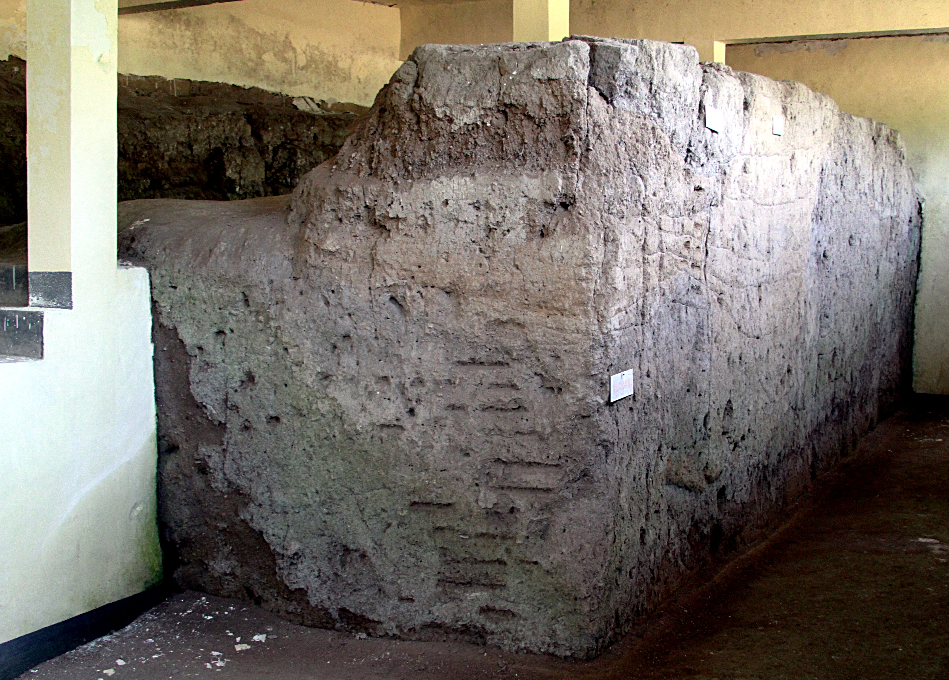 Photograph of the excavated city wall of the Chengziya Archaeological Site.